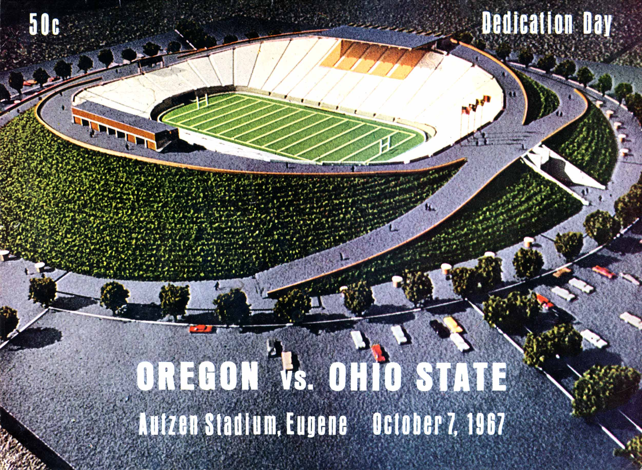 Cover of 1967 commemorative program from Oregon vs Ohio State football game. An architectural rendering of Autzen Stadium comprises the cover art